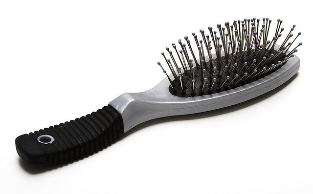 A hairbrush with metal bristles